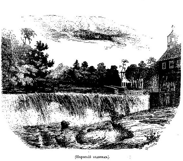 Illustratsiya Magazine. 1845.